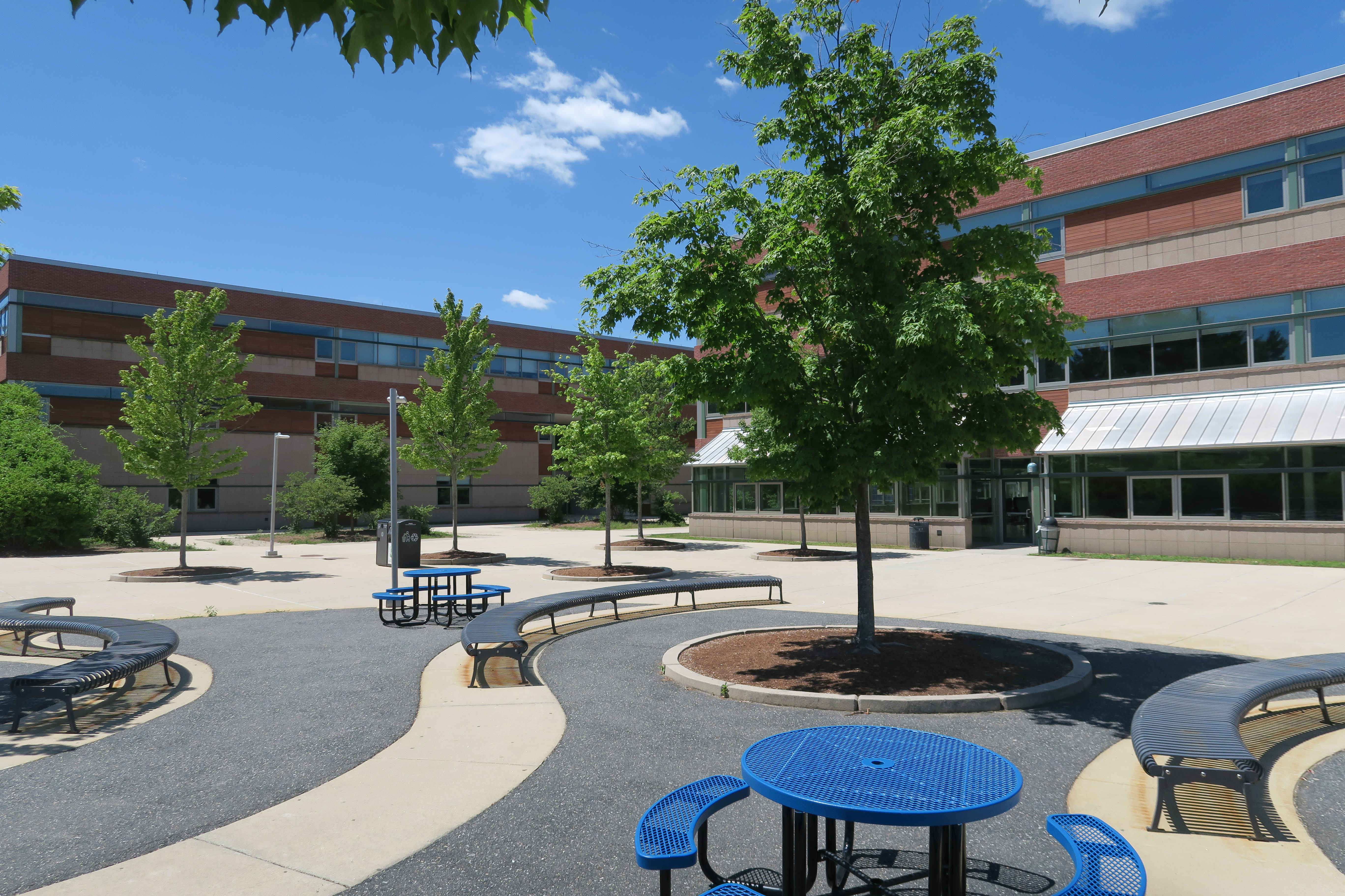 Courtyard, Lincoln-Sudbury Regional High School, Sudbury Massachusetts